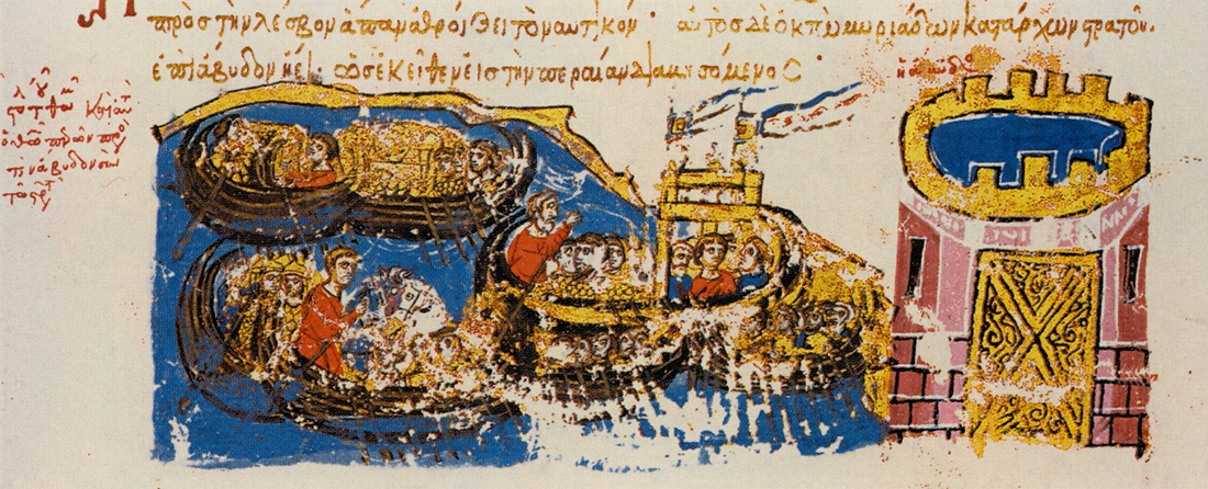 Skyllitzes Matritensis, fol. 31va, detail Miniature: The fleet of Thomas the Slav sails towards Abydos. Labels: στόλος τοῦ Θωμᾶ καὶ αὐτὸς ὁ Θωμᾶς περῶν πρὸς τὴν Ἄβυδον σὺν τῷ στρατῷ (left); ἡ Ἄβυδος (right) Text from the Chronicle of John Skylitzes: "...He made himself master of the imperial navy and mustered the entire fleet off Lesbos. He himself marched off to Abydos at the head of eighty thousand men..." (Translated by John Wortley, in: John Skylitzes: A Synopsis of Byzantine History, 811-1057: Translation and Notes, p. 36) References: Ioannis Scylitzae Synopsis Historiarum. Editio Princeps. Rec. Ioannes Thurn, p. 32, in: Corpus Fontium Historiae Byzantinae 5 Series Berolinensis, 1973 Tsamakda V.: The illustrated chronicle of Ioannes Skylitzes in Madrid, p. 71-72 Pryor J., Jeffreys E.: The age of the dromōn: the Byzantine navy ca. 500-1204, p. 308-309 Grabar A., Manoussacas M.: L'illustration du manuscript de Skylitzes de Madrid, p. 34